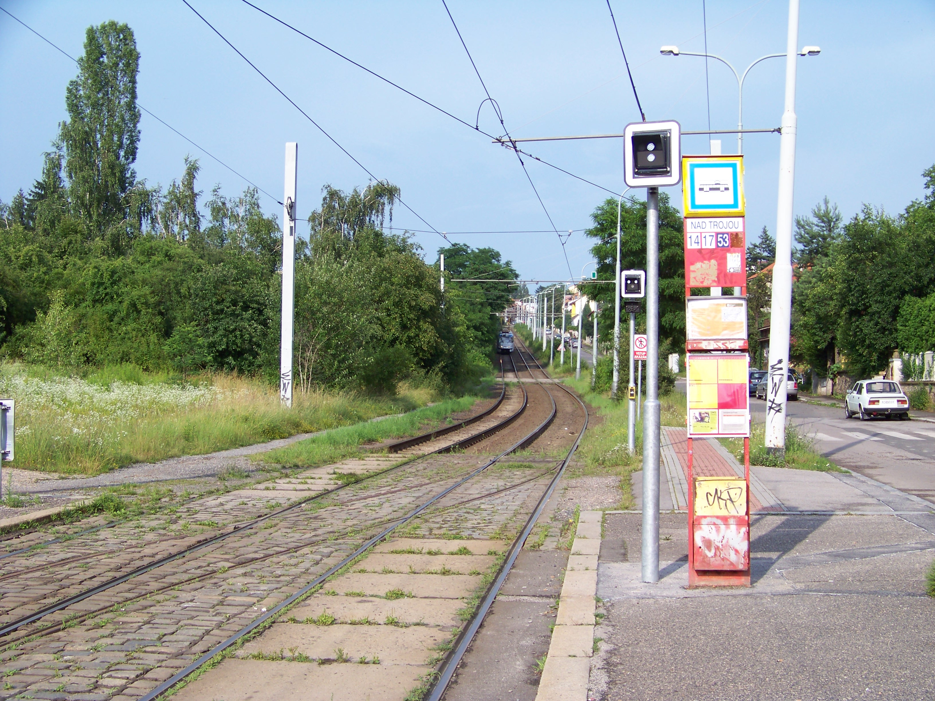 Troja, Prague, the Czech Republic.